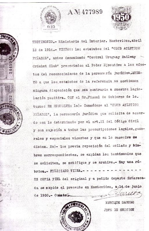 A copy of the original document (dated 1914-04-13) recognising Club Atlético Peñarol's legal status as a continuity of defunct CURCC. The copy was issued in 1950.